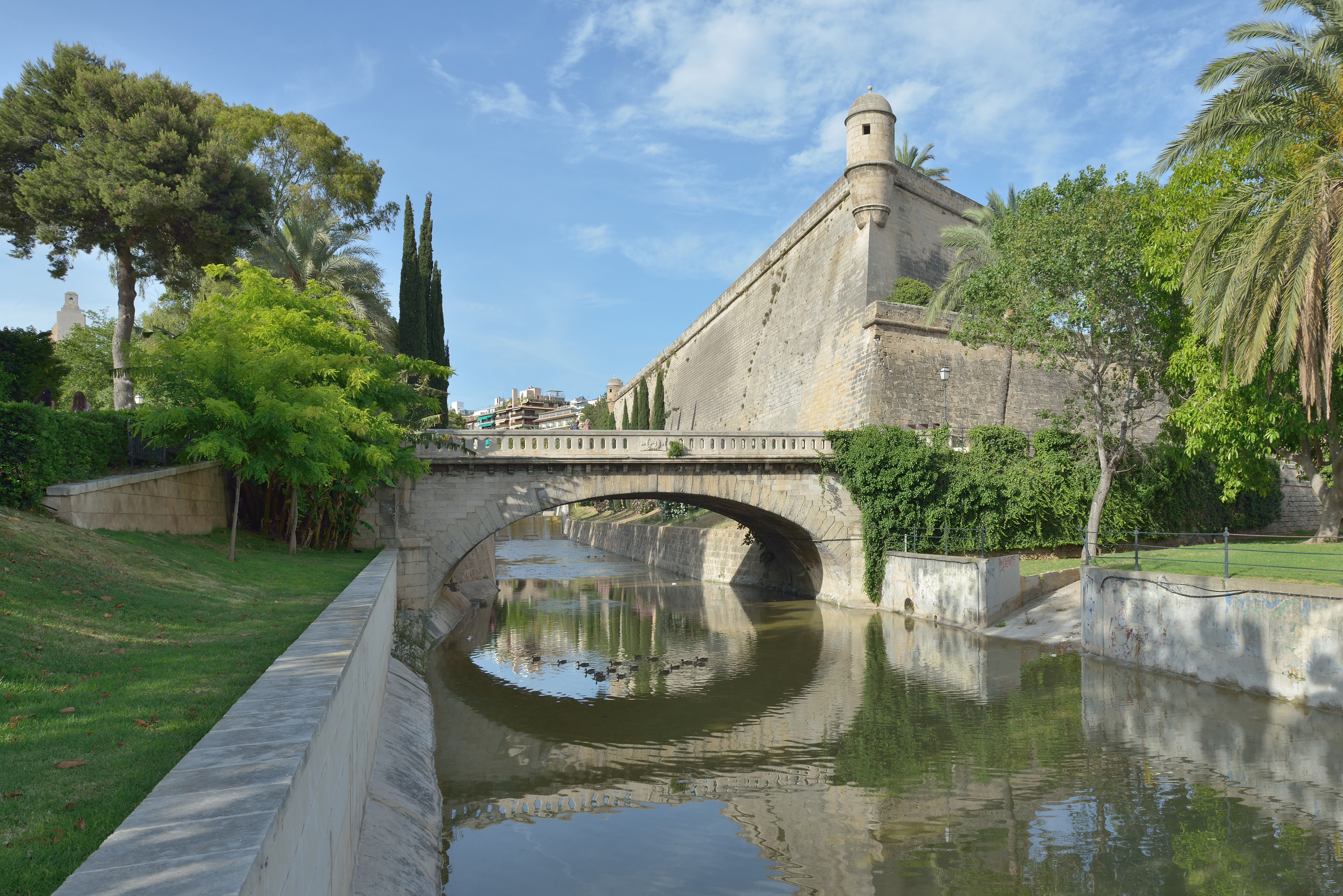 Feixina Park, Torrent de Sa Riera, Basti`de Sant Pere - Renaissance city wall bastion of Sant Pere, designed by the Italian engineer Giovan Giacomo Paleari Fratino ‘El Fratín’ in Palma de Mallorca.